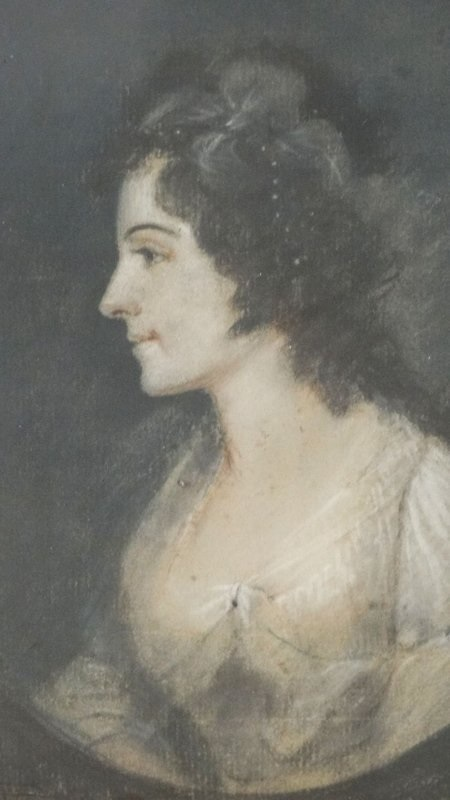 James Sharples (1751–1811), Portrait of Elizabeth Schuyler Hamilton seated in profile with her head turned to the left. Pastel on paper dating ca 1795, image size 7" x 9.5".PAINTER: Sharples, James (1751-1811) (attributed to)SUBJECT: Hamilton, Alexander, Mrs. (Elizabeth Schuyler)MEDIUM: Pastel on paperCONTROL NUMBER: IAP 9D640263DATA SOURCE: Art Inventories Catalog, Smithsonian American Art Museums